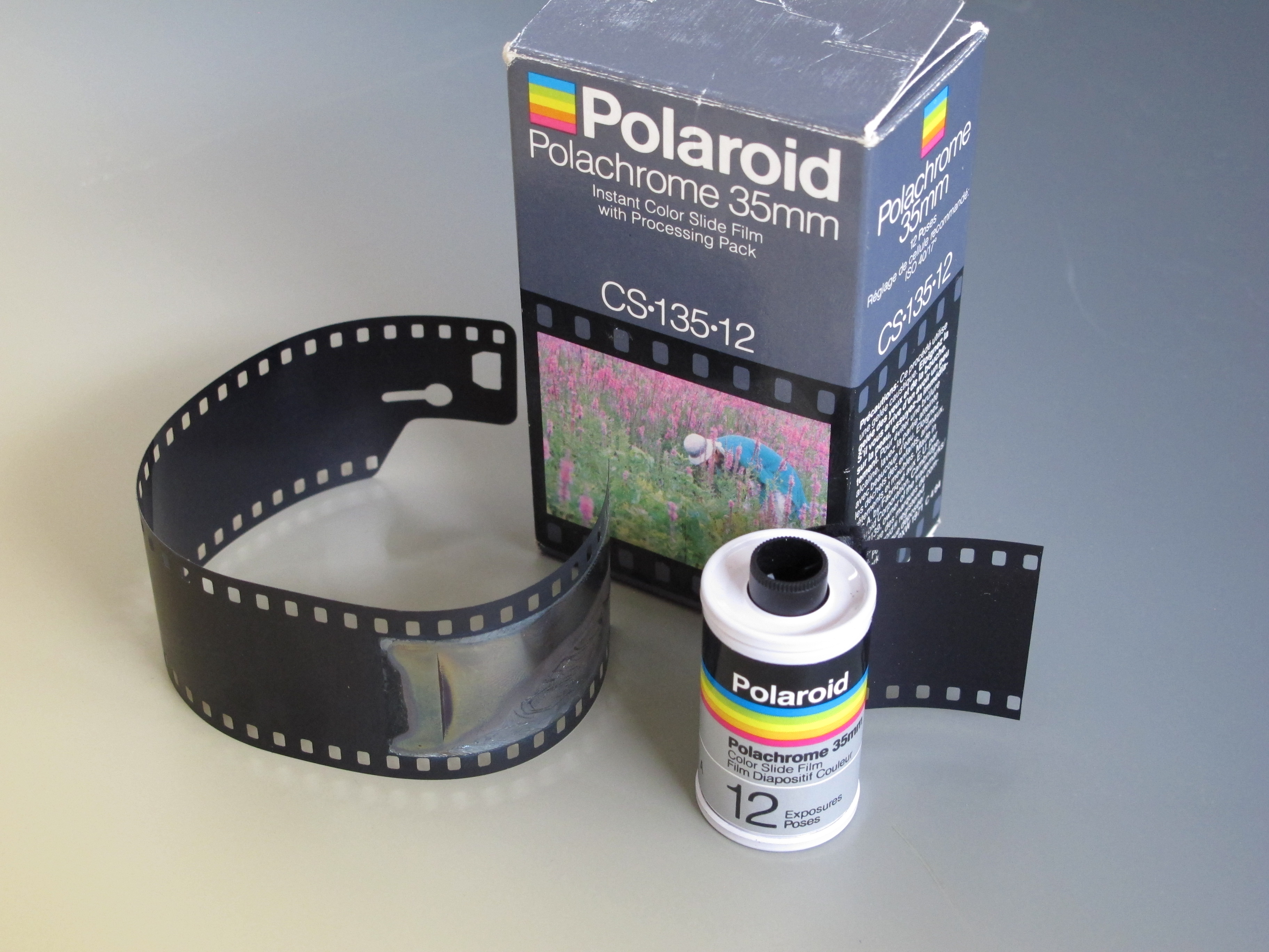 Polaroid 35mm Instant Film